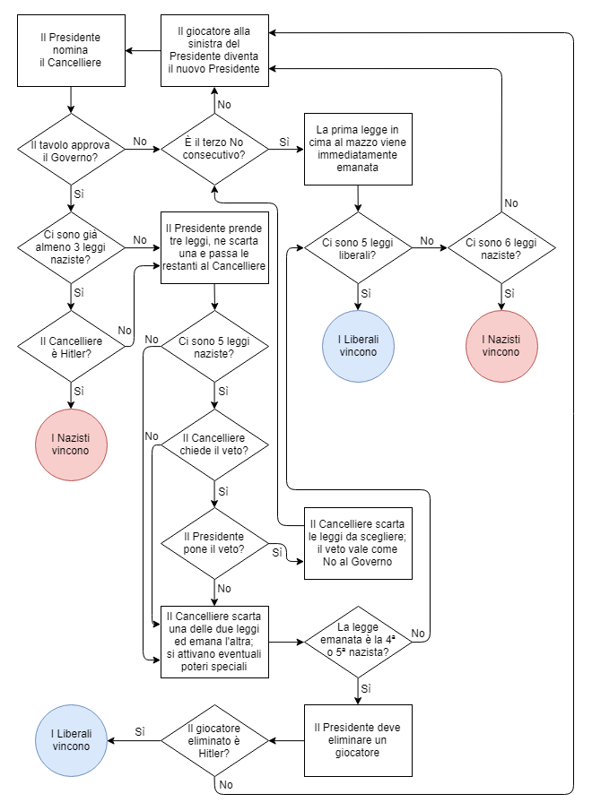 Flowsheet of the game Secret Hitler (in Italian)